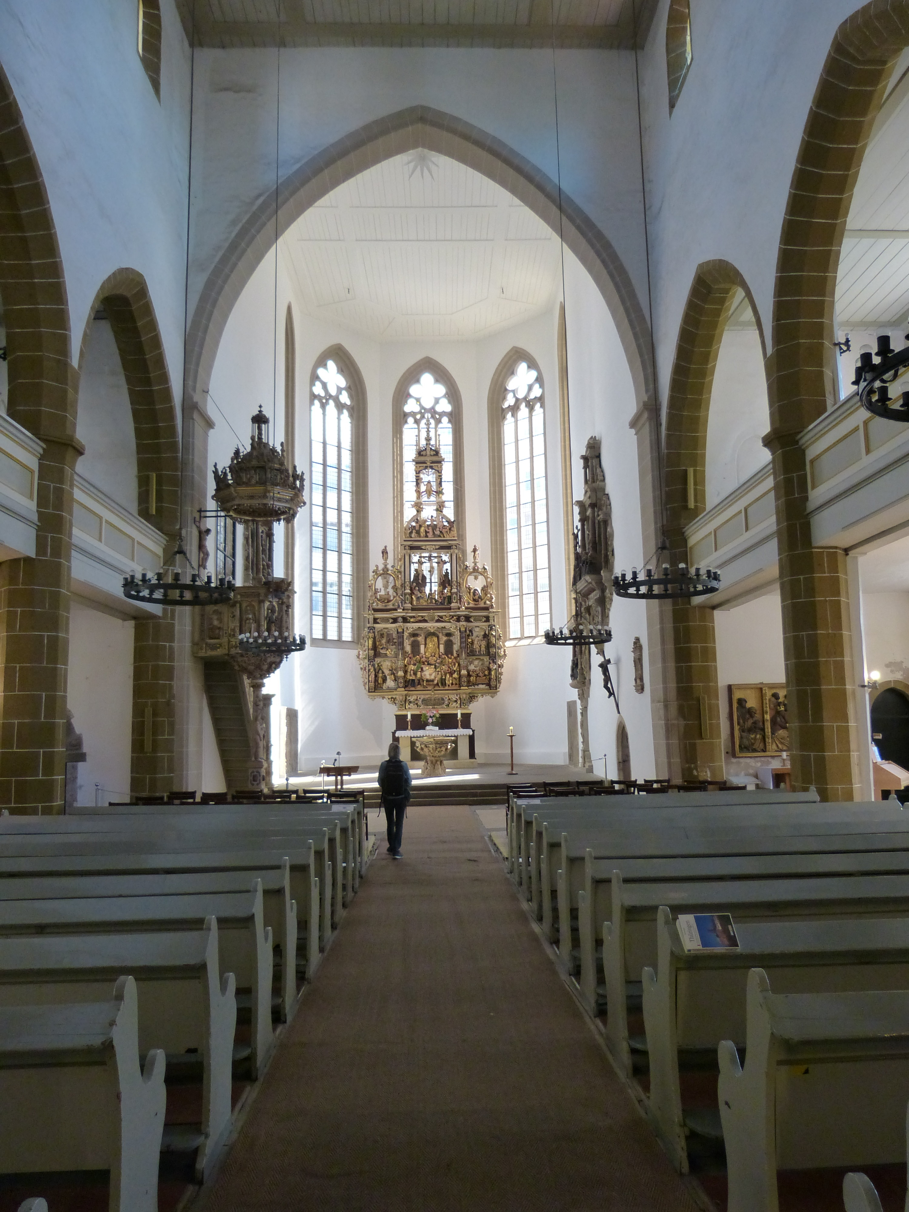 Erfurt ( Thuringia ). Merchants´ church ( 14th century ) - Interior.